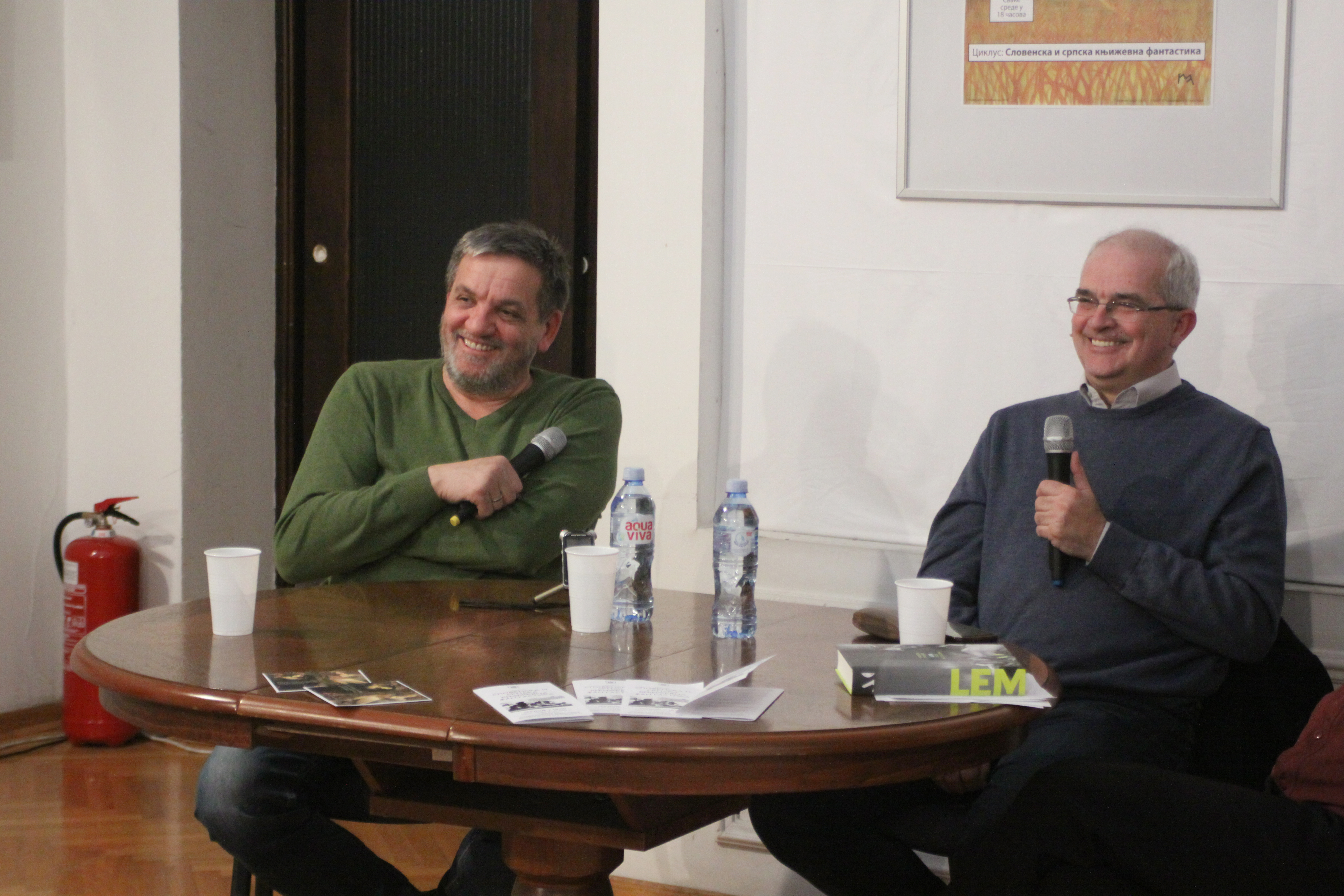 Slavic and Serbian fantasy cycle, University library, Belgrade, Serbia, Boban Knežević, writer and publisher and Miodrag Milovanović. Srpski (latinica): Ciklus "Slovenska i srpska fantastika", Univerzitetska biblioteka, Beograd, Srbija, Boban Knežević, pisac i izdavač i Miodrag Milovanović, književni teoretičar.